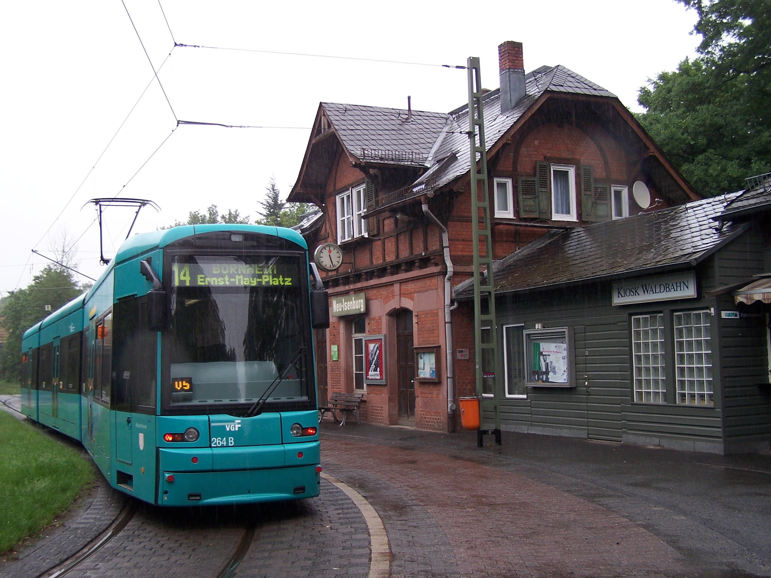 VGF tram S-Type 264 at Neu-Isenburg Stadtgrenze, May 2007